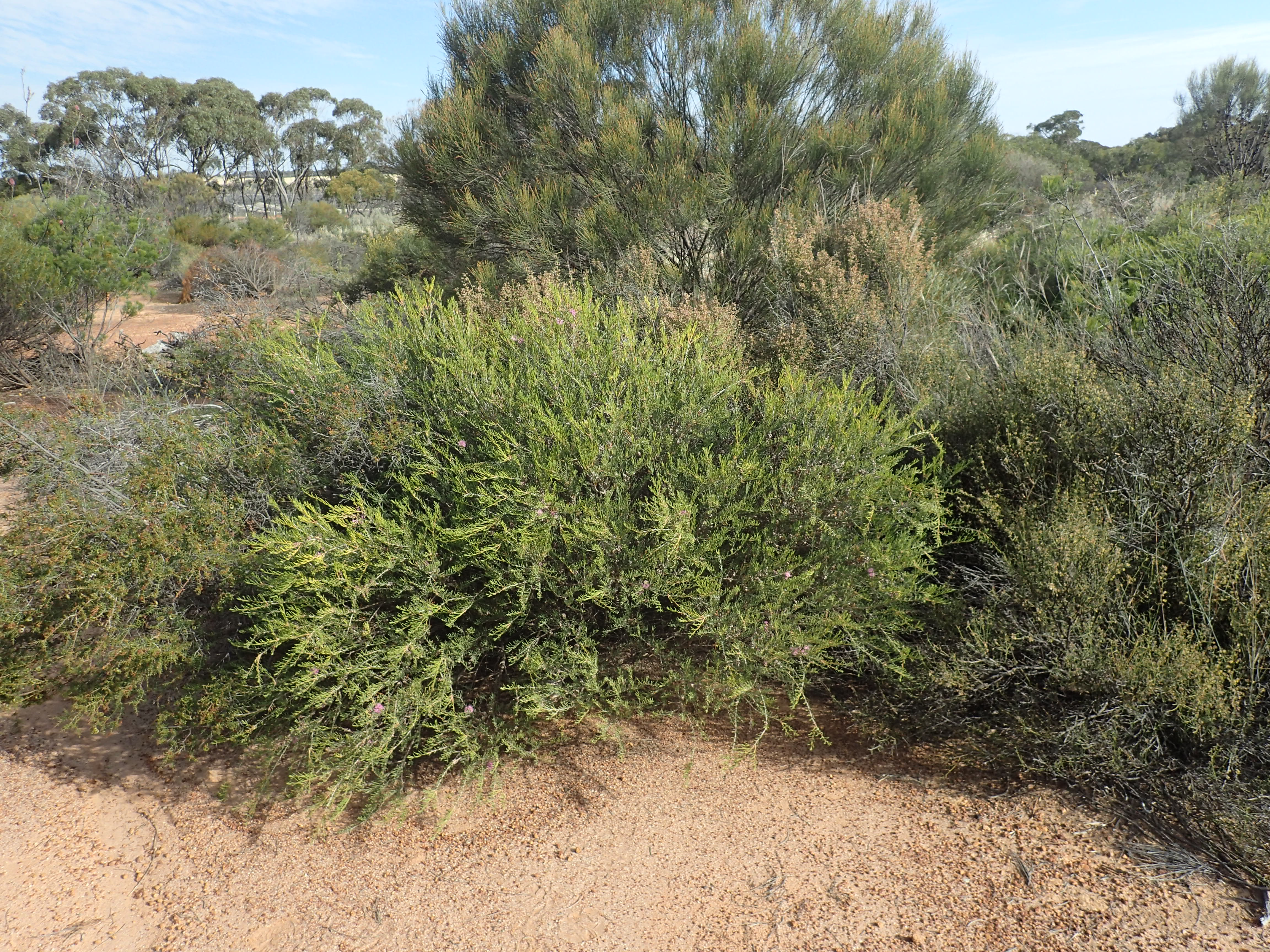 Melaleuca ctenoides growing near the Koorda-Wongan hills Road, north east of Wongan Hills township